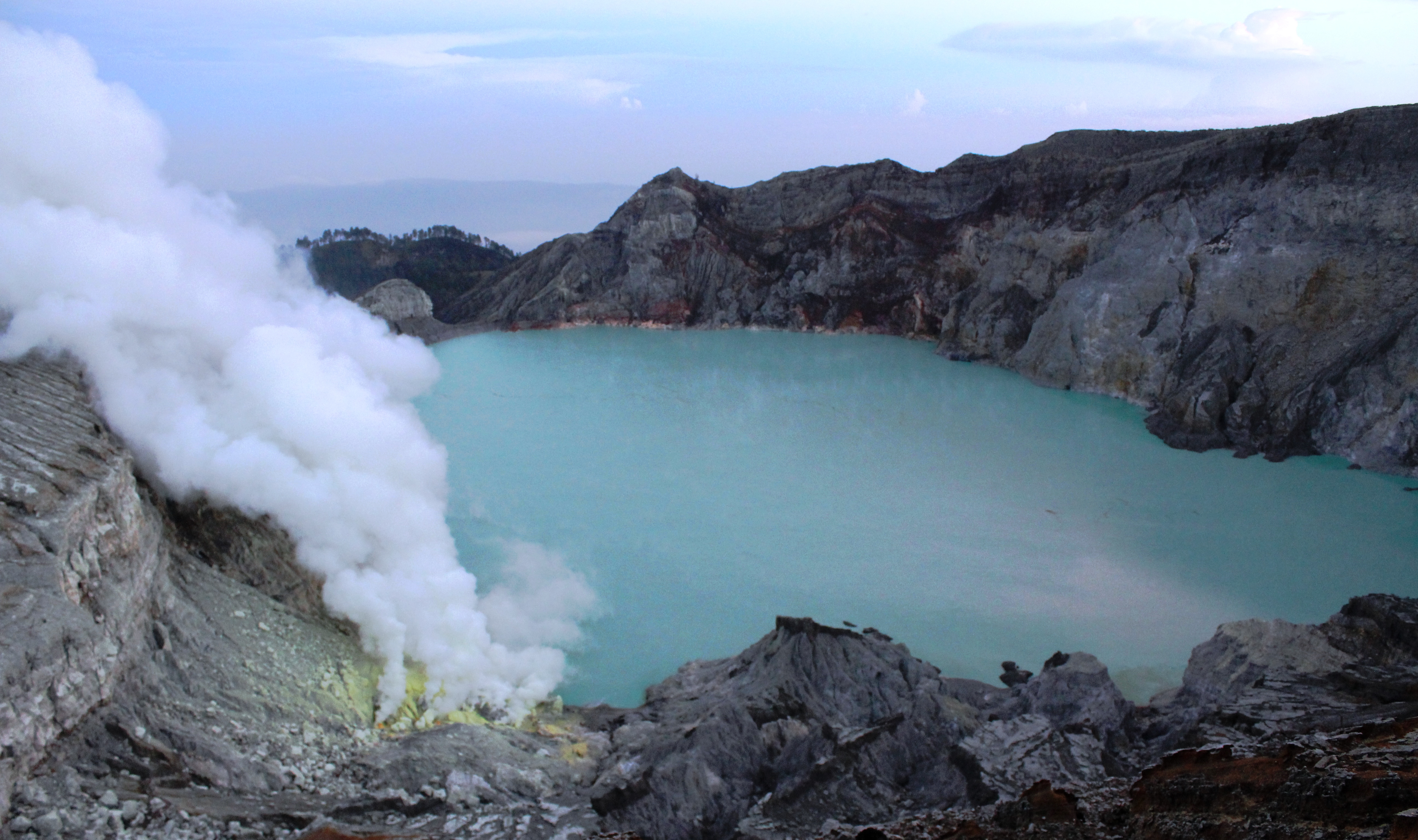 Kawah Ijen crater lake, Banyuwangi, East Java.